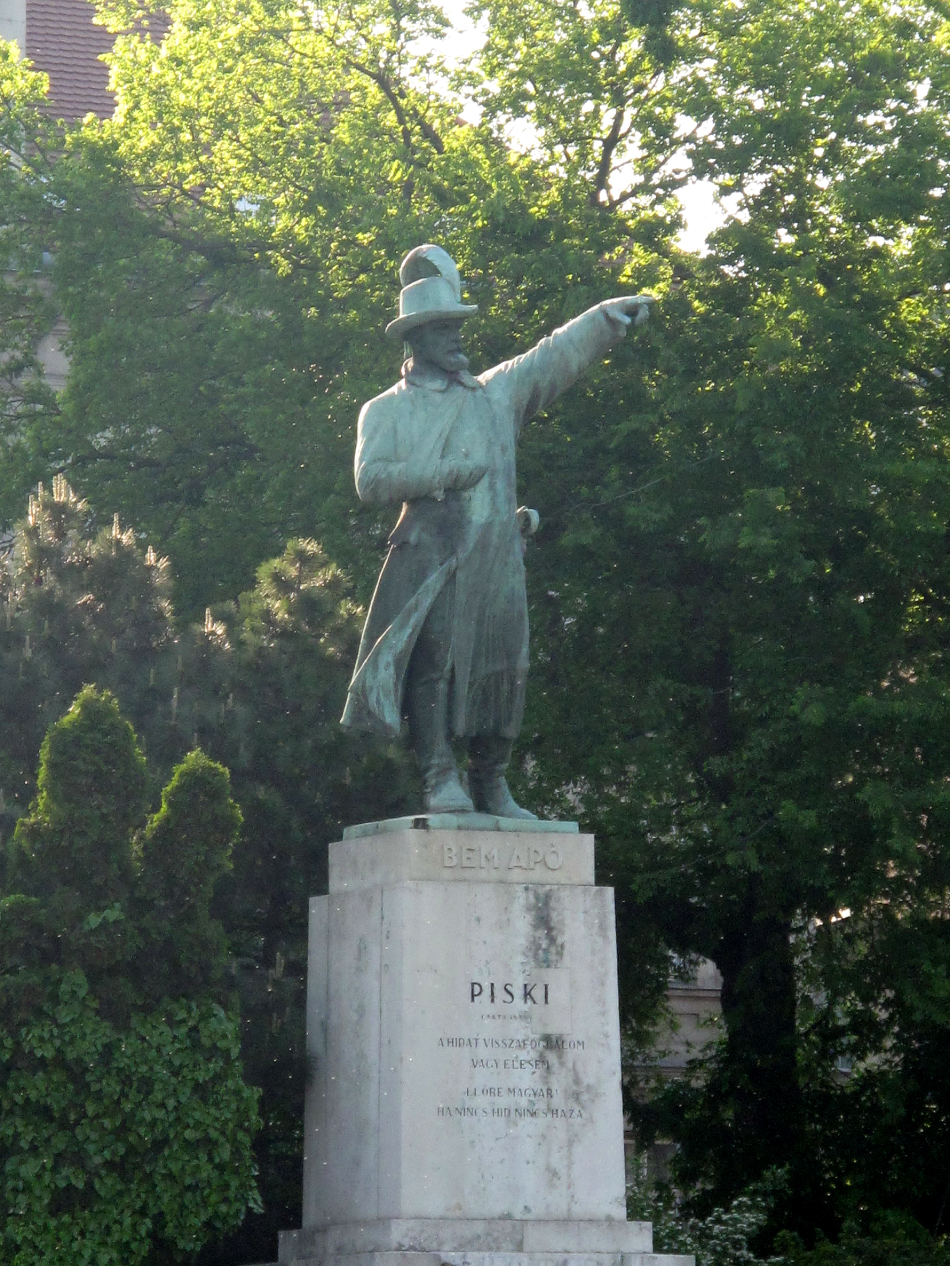 Statue of Józef Bem in Budapest II, Hungary